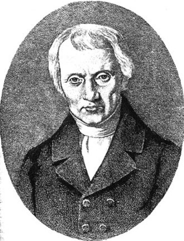 Author unknown; portrait was made over 100 years ago, past copyright (subject died in 1862).